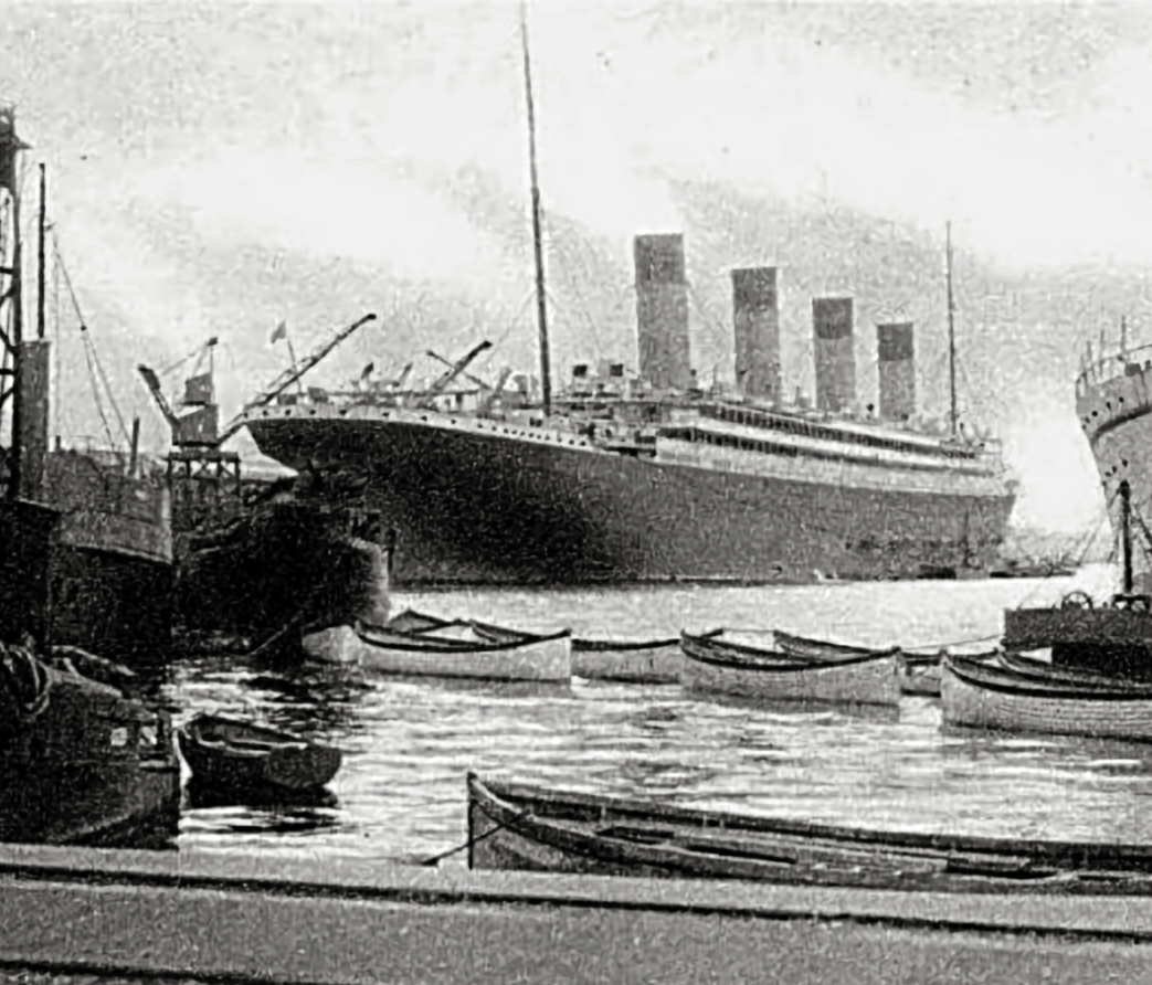 New lifeboats being load on RMS Olympic, Titanic's sister-ship